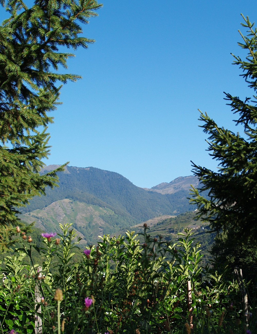 The east slope of the Col d'Aspin, viewed from the tiny hamlet of Pailhac, at the opposite side of the Aure valley.